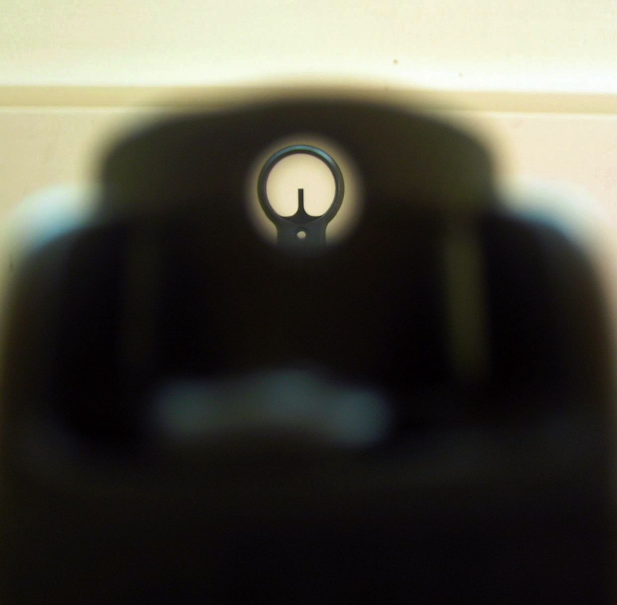 Hooded post viewed through an aperture of the rotating drum rear sight on a Heckler & Koch MP5. The rotating drum sight apertures on Heckler & Koch sub machine guns have various diameter apertures to optimize the sight line for various ambient light conditions. The theory of operation behind the aperture sight is often stated that the human eye will automatically center the front sight when looking through the rear aperture, thus ensuring accuracy. An additional benefit to aperture sights is that smaller apertures provide greater depth of field, making the target less blurry when focusing on the front sight.